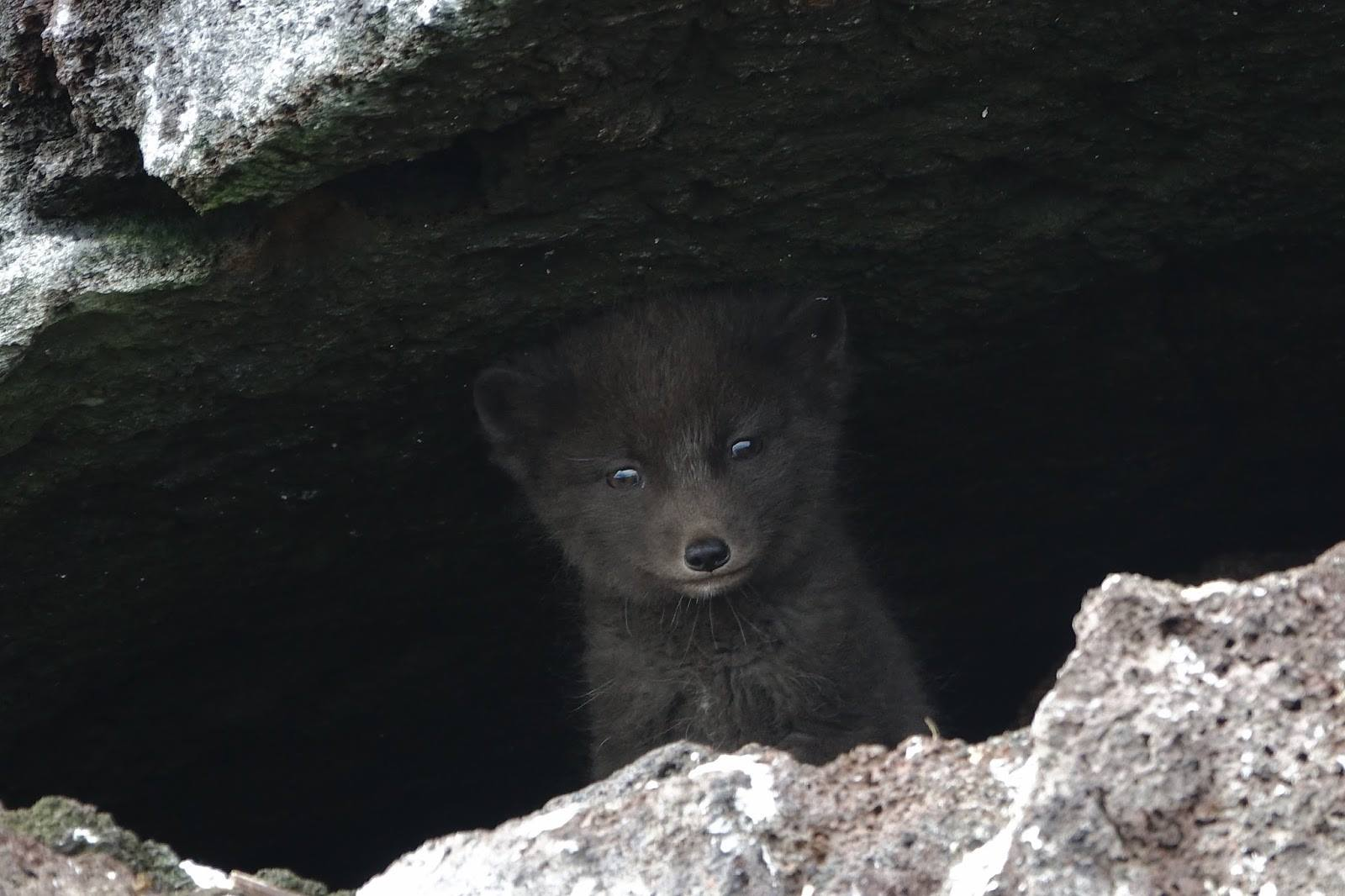 Blue fox on St Paul Island